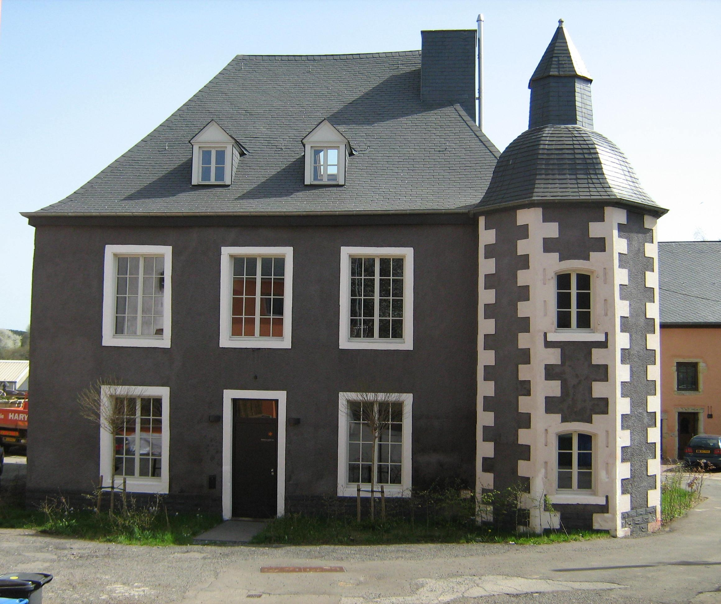 Clemency Castle in Clemency, western Luxembourg